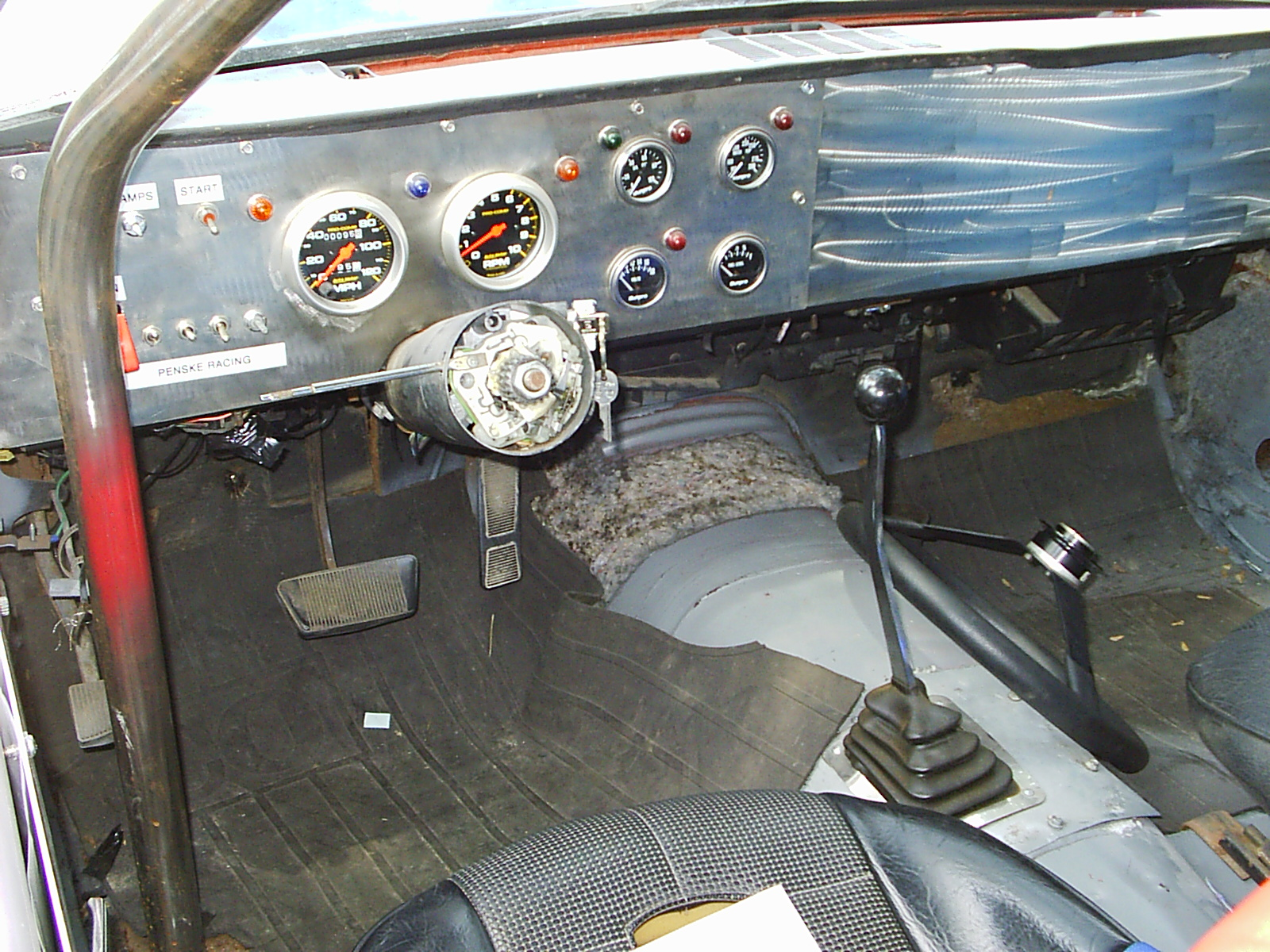 Interior view of a 1974 AMC Matador X coupe that has been customized as a "tribute car" with grand national racing livery and equipment. The steering wheel is a quick release design. The AMC Matador was the 1975 Southern 500 NASCAR winner. Photograph taken at an AMC Rambler Club show that was held in Gaithersburg, Maryland.